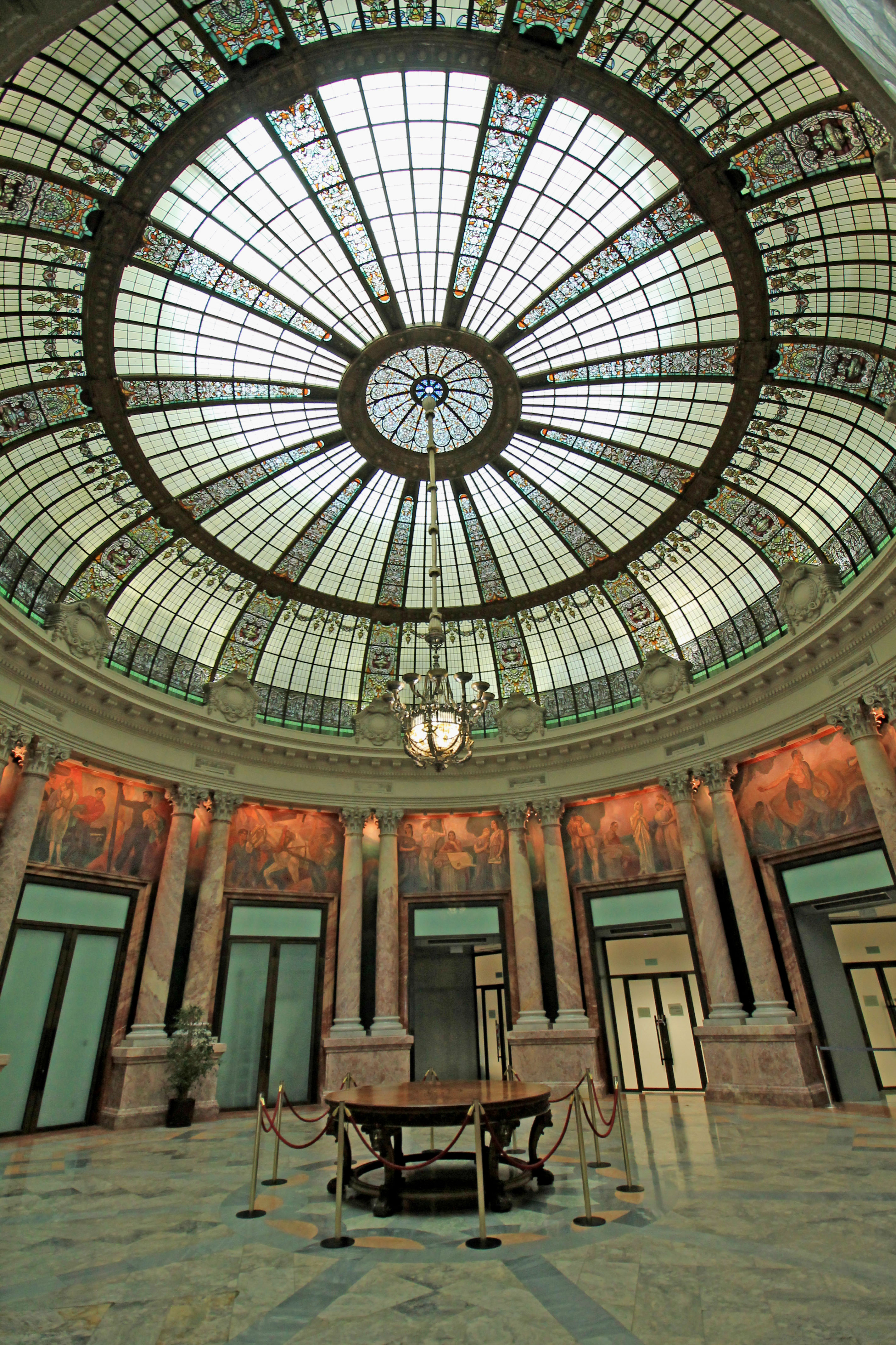 Interior of the Bank of Bilbao (1923) in Madrid (Spain).